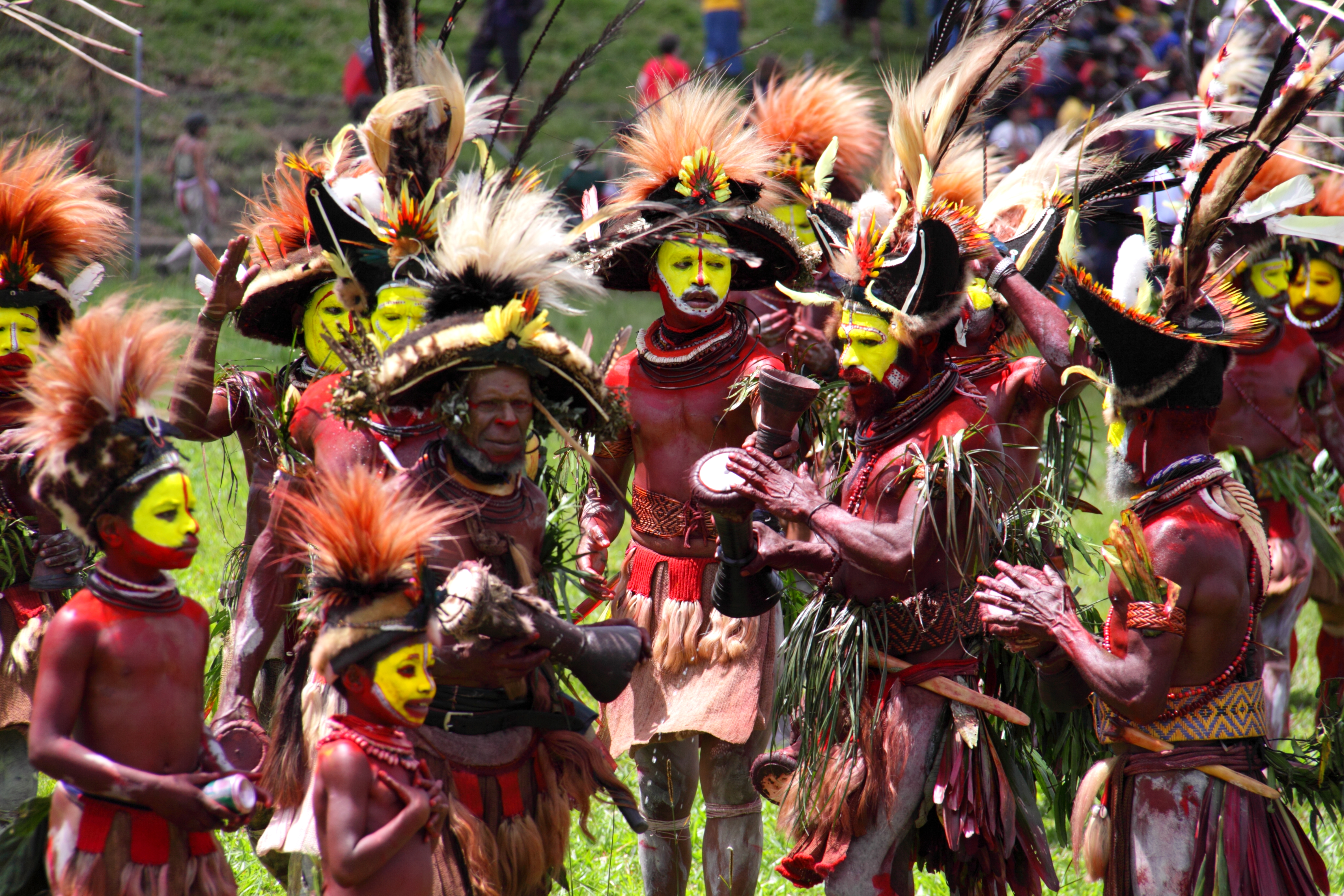 new guiney, papouas from the koroba group